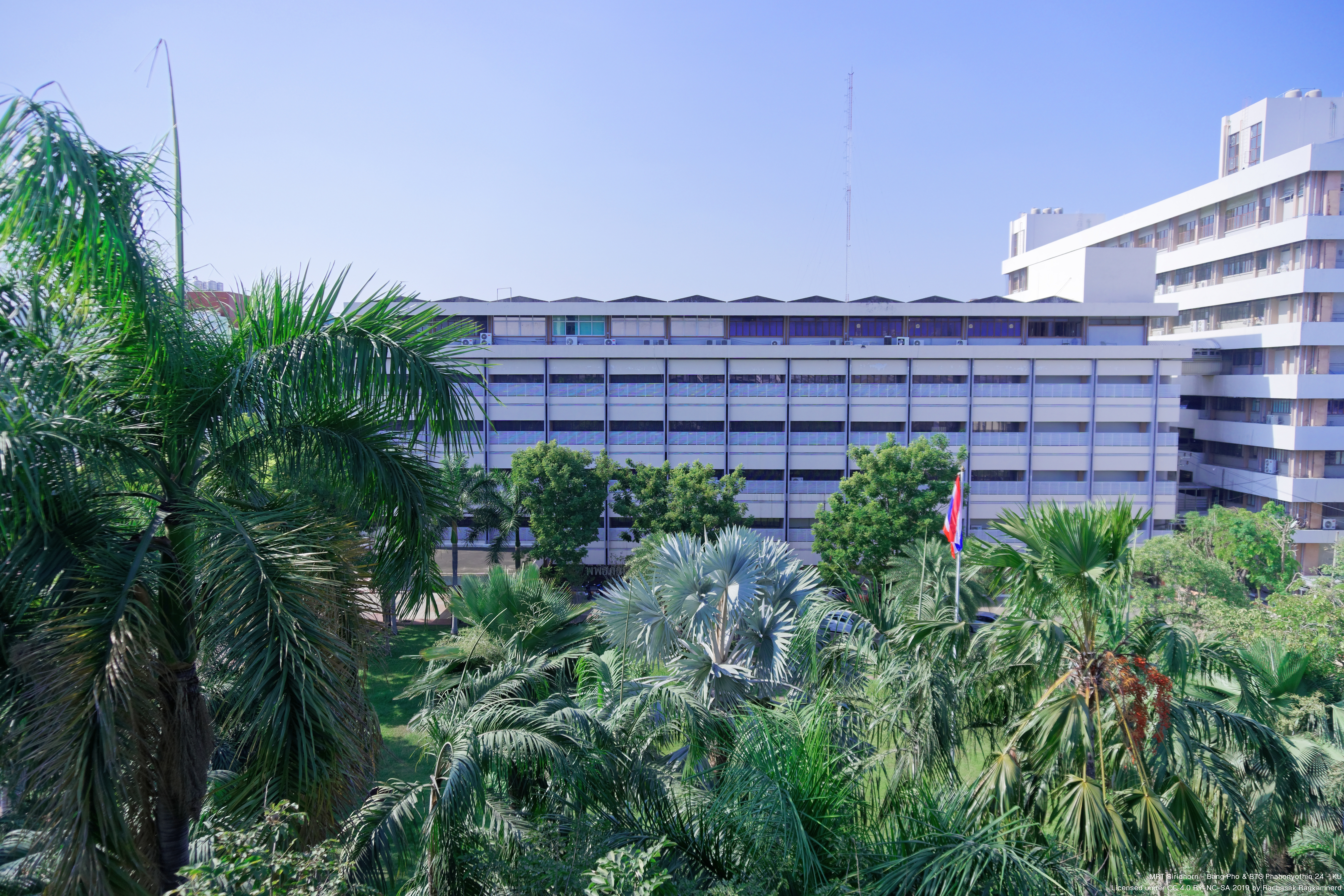 BTS Sena Nikhon - Department of Land development building